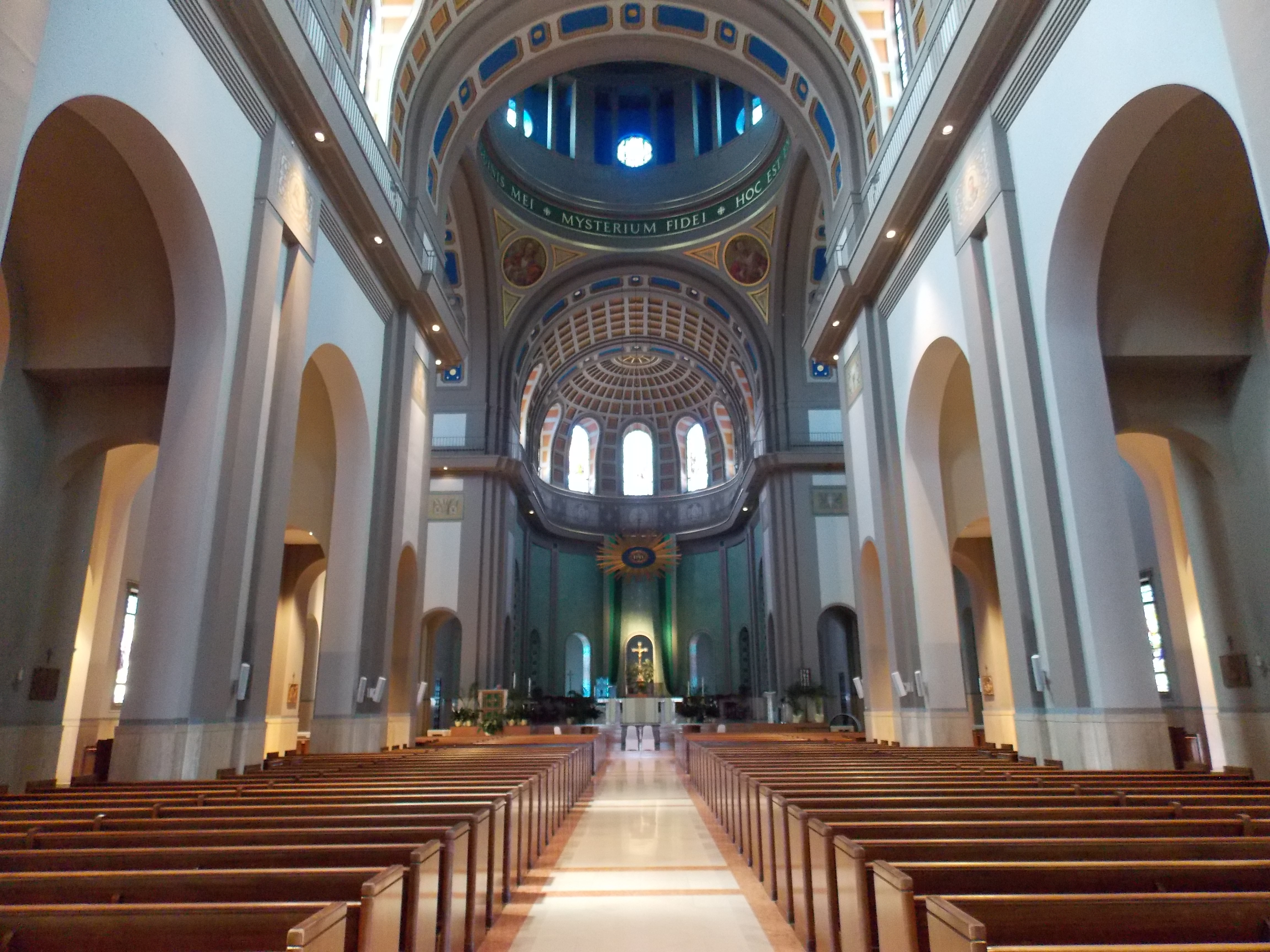 The interior of the Cathedral of the Blessed Sacrament, Altoona, Pennsylvania.